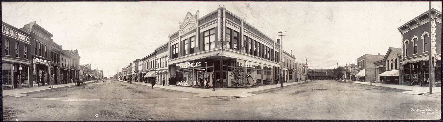 A panoramic photo of Laramie, Wyoming taken sometime in 1908.